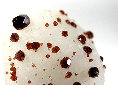 Garnet Locality: Gilgit, Gilgit District, Northern Areas, Pakistan (Locality at ) Size: small cabinet, 6 x 2.5 x 2.4 cm Garnet on Feldspar Brilliant red garnet on snow-white feldspar. It is truly a unique, and visually appealing, specimen. The feldspar crystal is even twinned, as a bonus! Complete all around! 6 x 2.5 x 2.4 cm